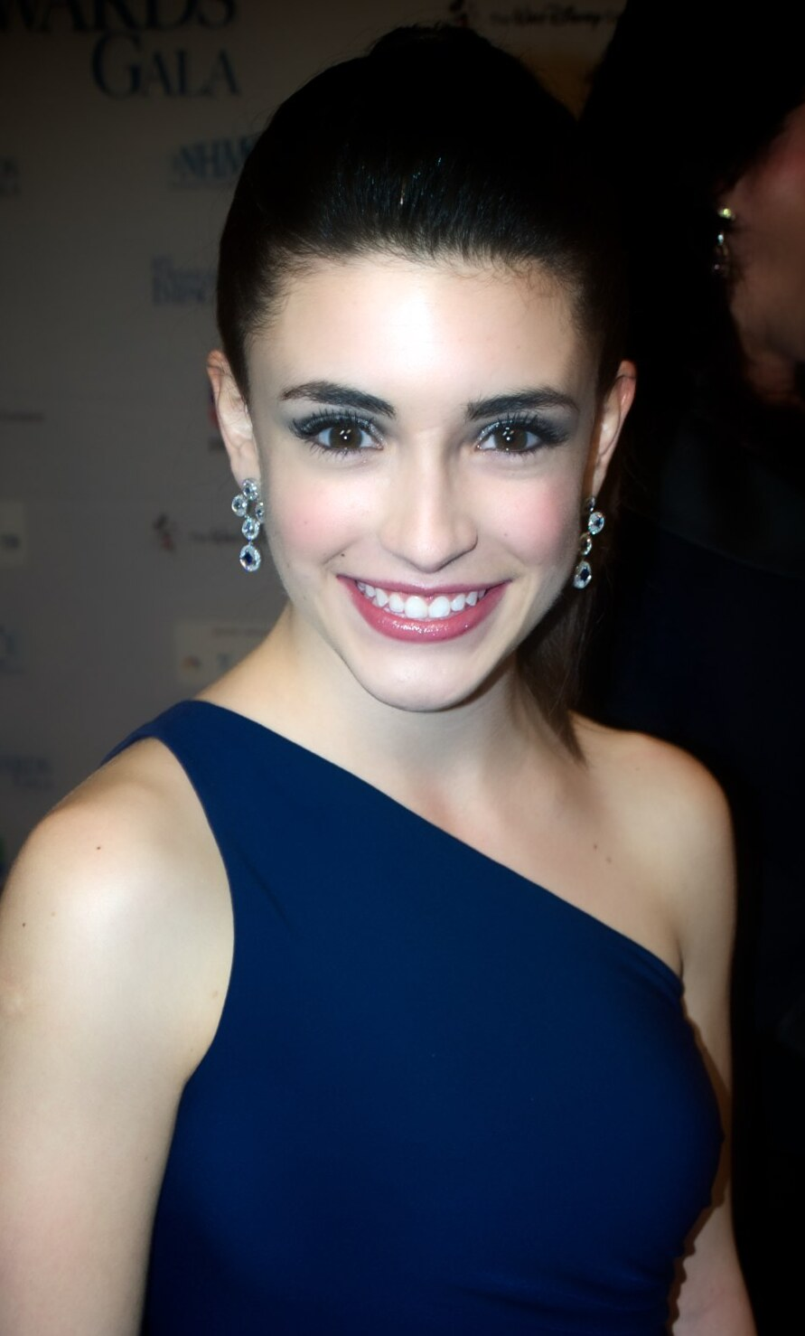 Daniela Bobadilla at the National Hispanic Media Coalition 2012 Impact Gala